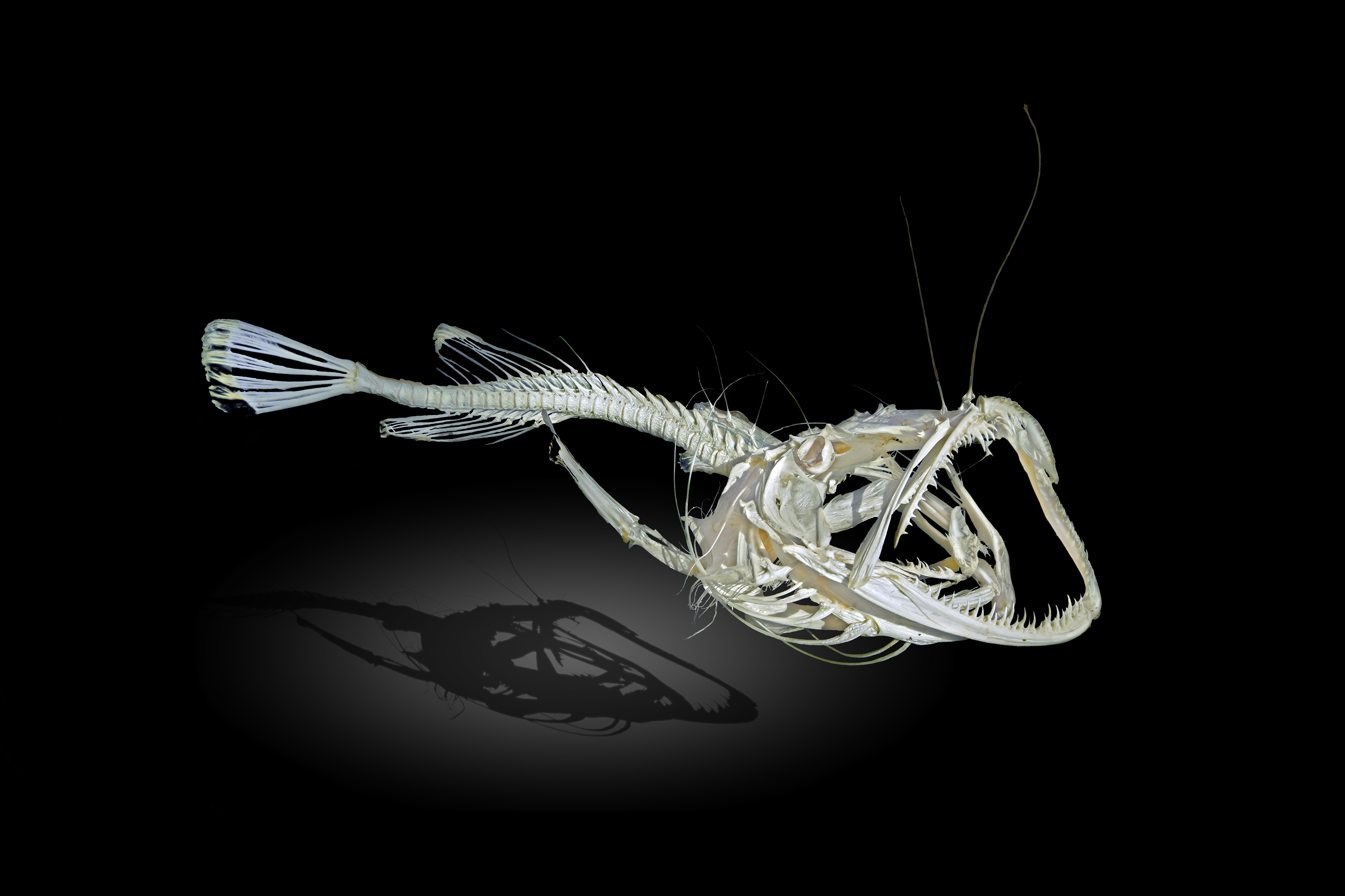 The angler, complete skeleton. Locality North Atlantic Ocean.